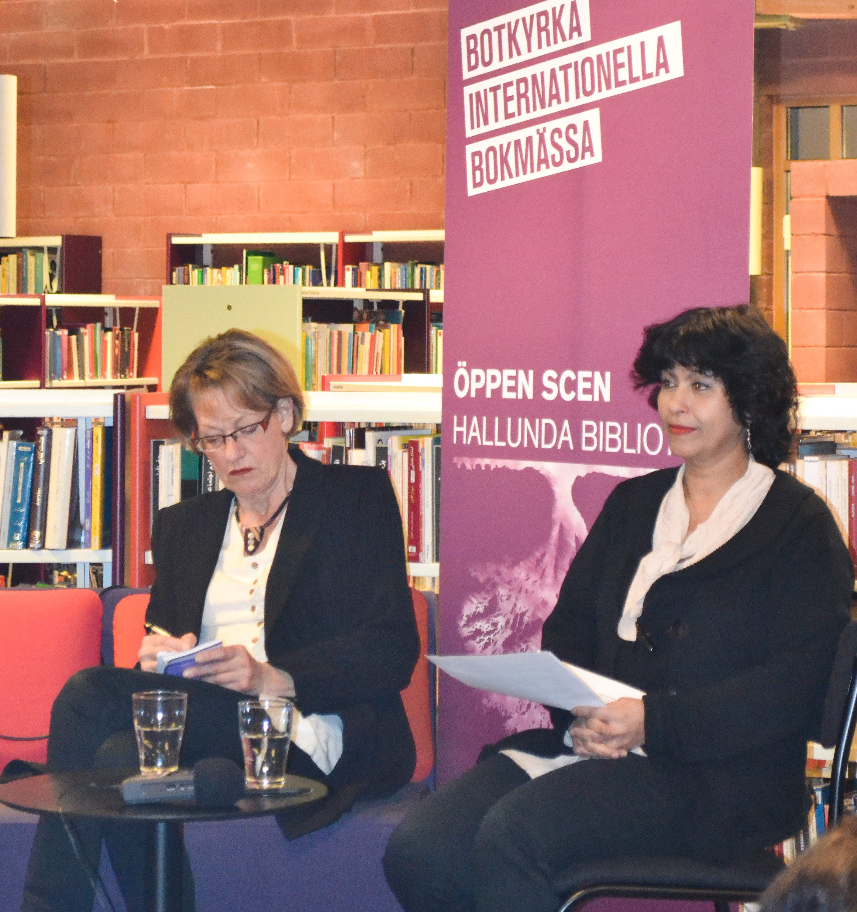 Gudrun Schyman. A Swedish politician visiting Hallunda in the South of Stockholm